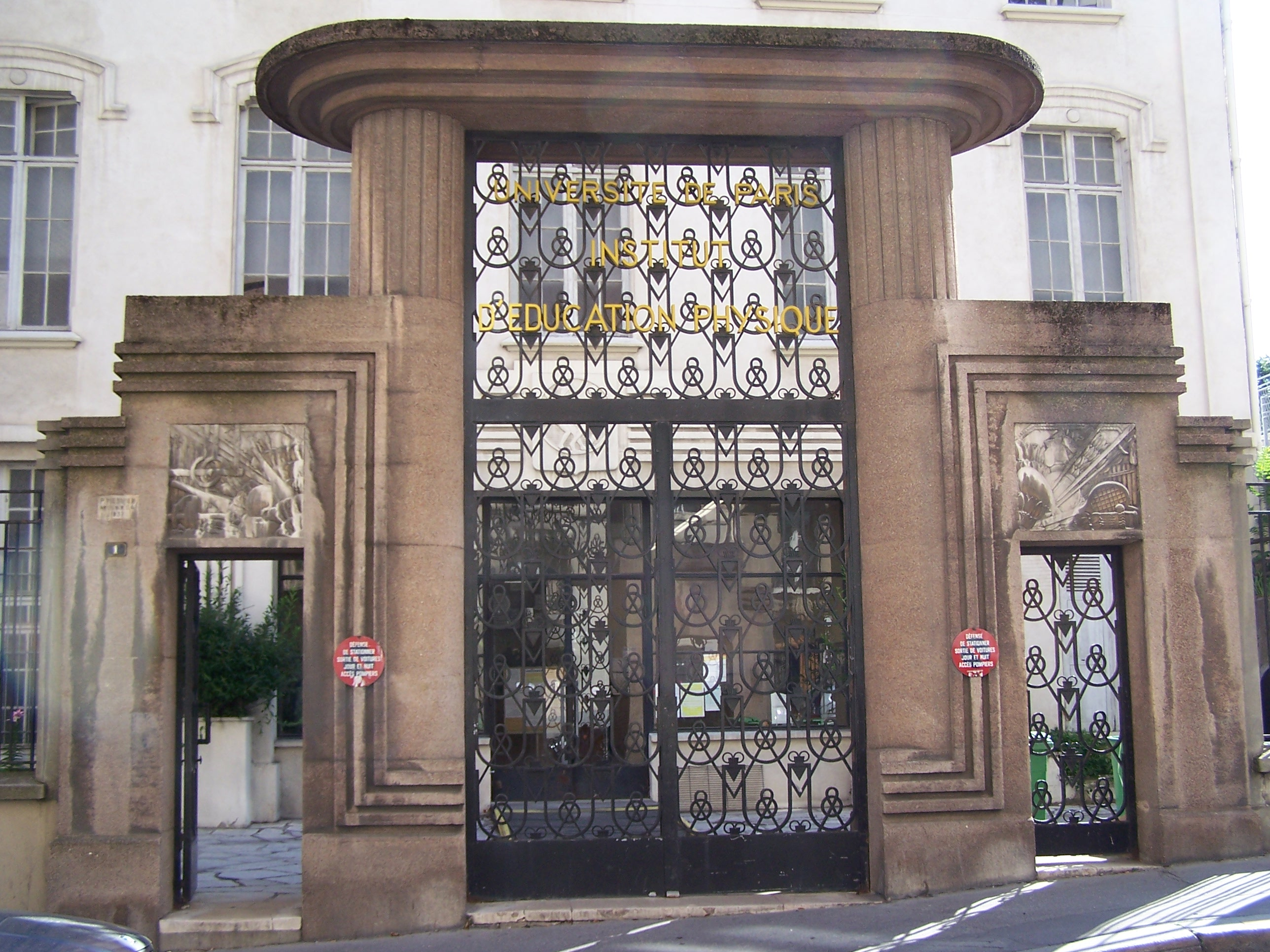 Entrance of the Institut d'éducation physique, part of the Sorbonne university